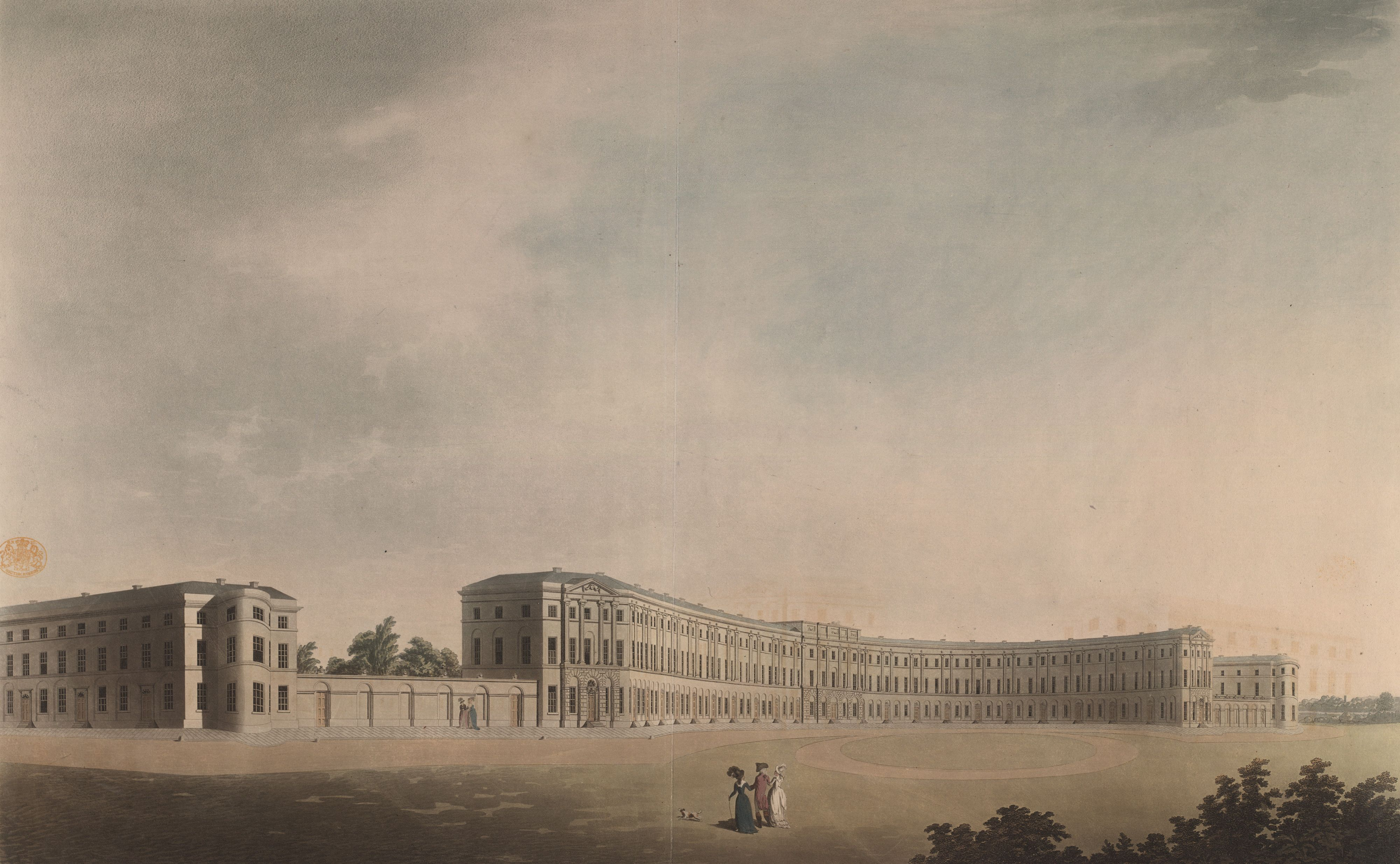 Perspective view of the Cresent now erecting near the Town of Birmingham, engraved by Francis Jukes, from the designs of architect John Rawsthorne, depicting The Crescent, a planned but only ever partially completed (and since demolished) development in Birmingham, England.